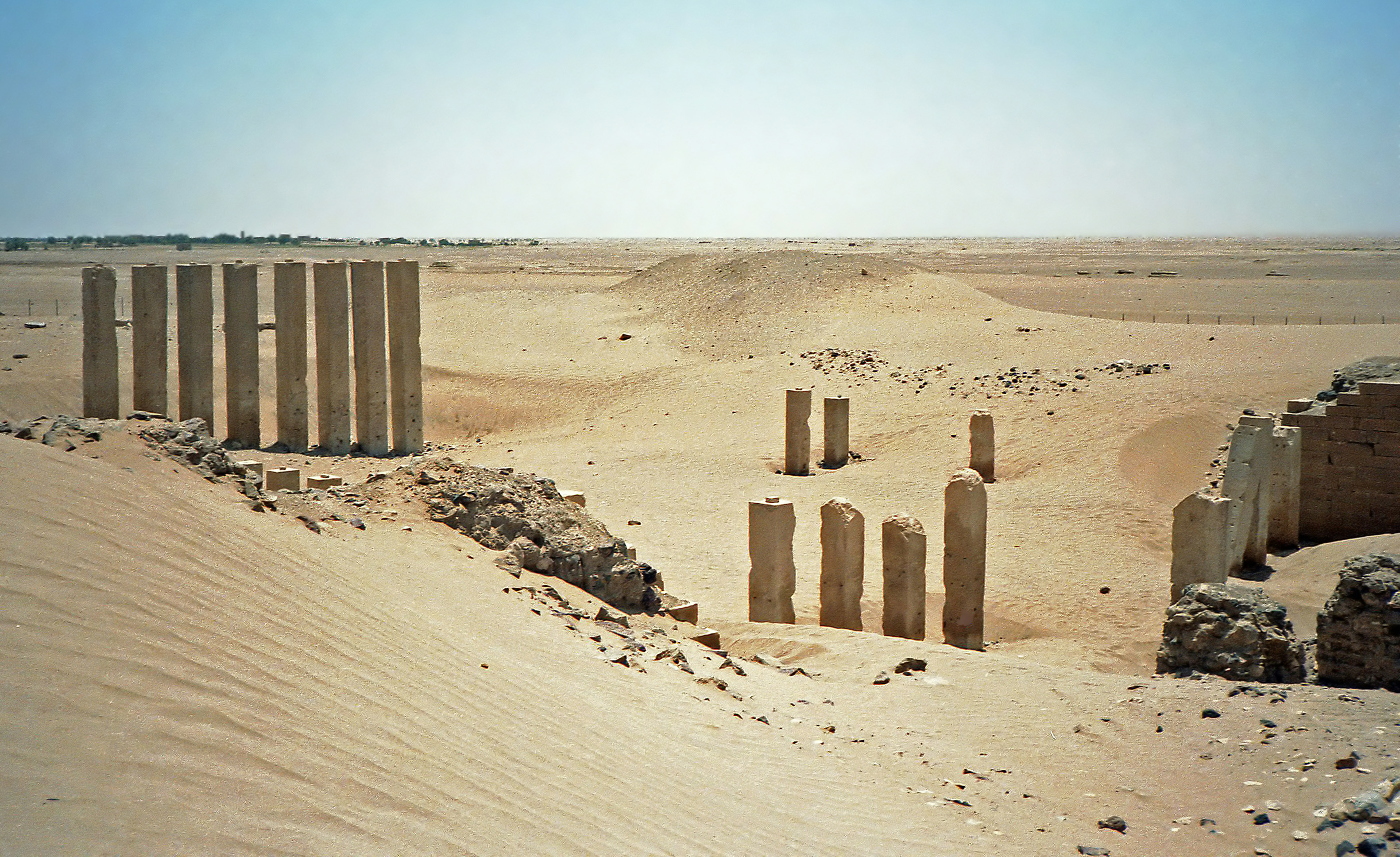 Ruins with columns, of Mahram Bilqis or Awwam Temple in 1986 near Ma'rib, Yemen